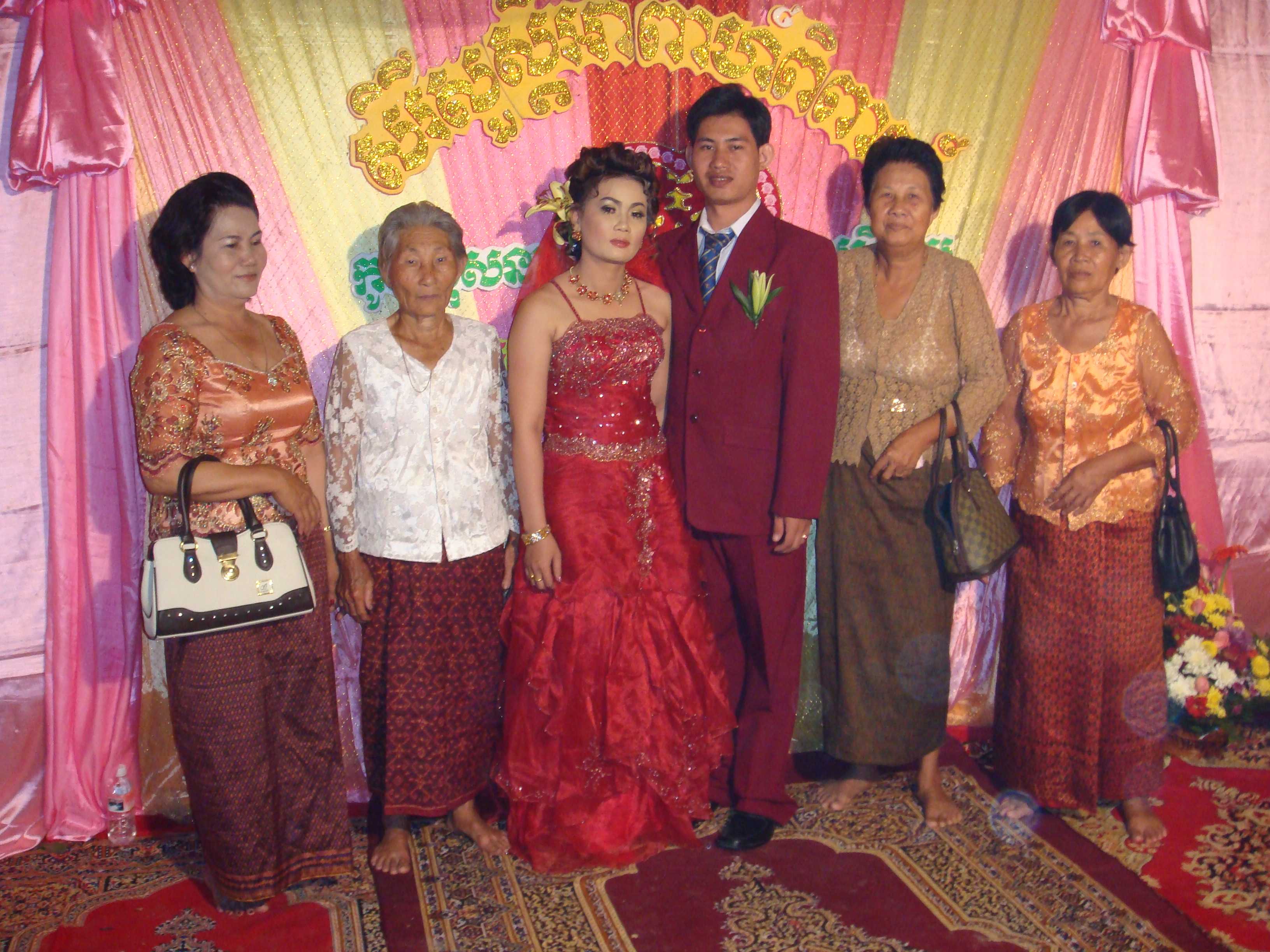 Khmer hokkien wedding in Kampong thom, province